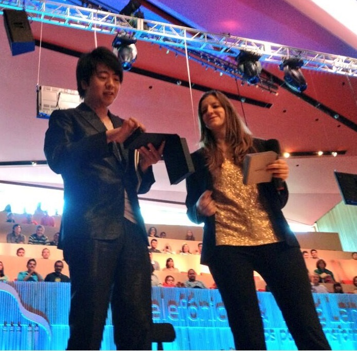 Lang Lang's master class for Telefonica in Mexico, 2013